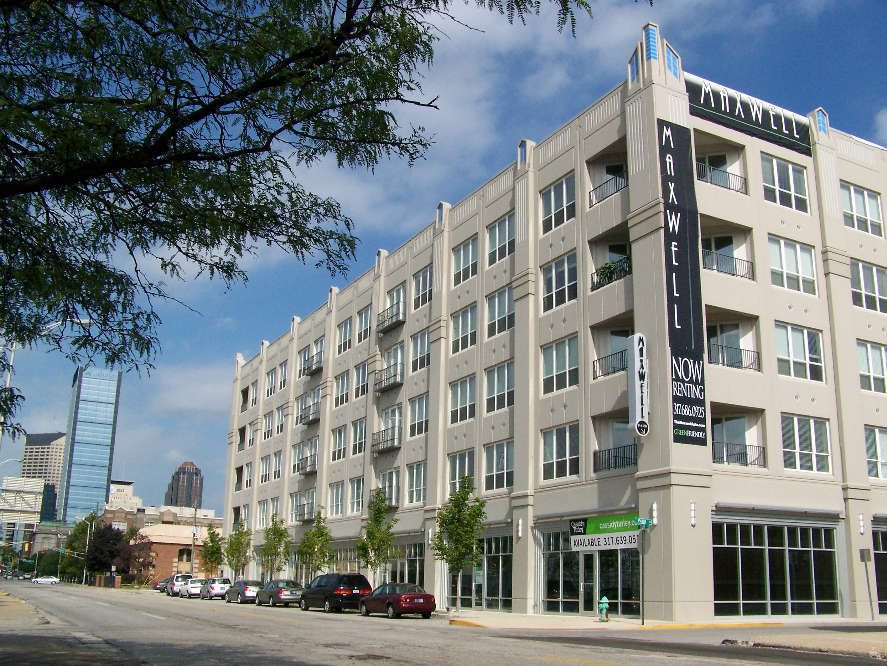 This it the Maxwell Apartments in downtown Indianapolis